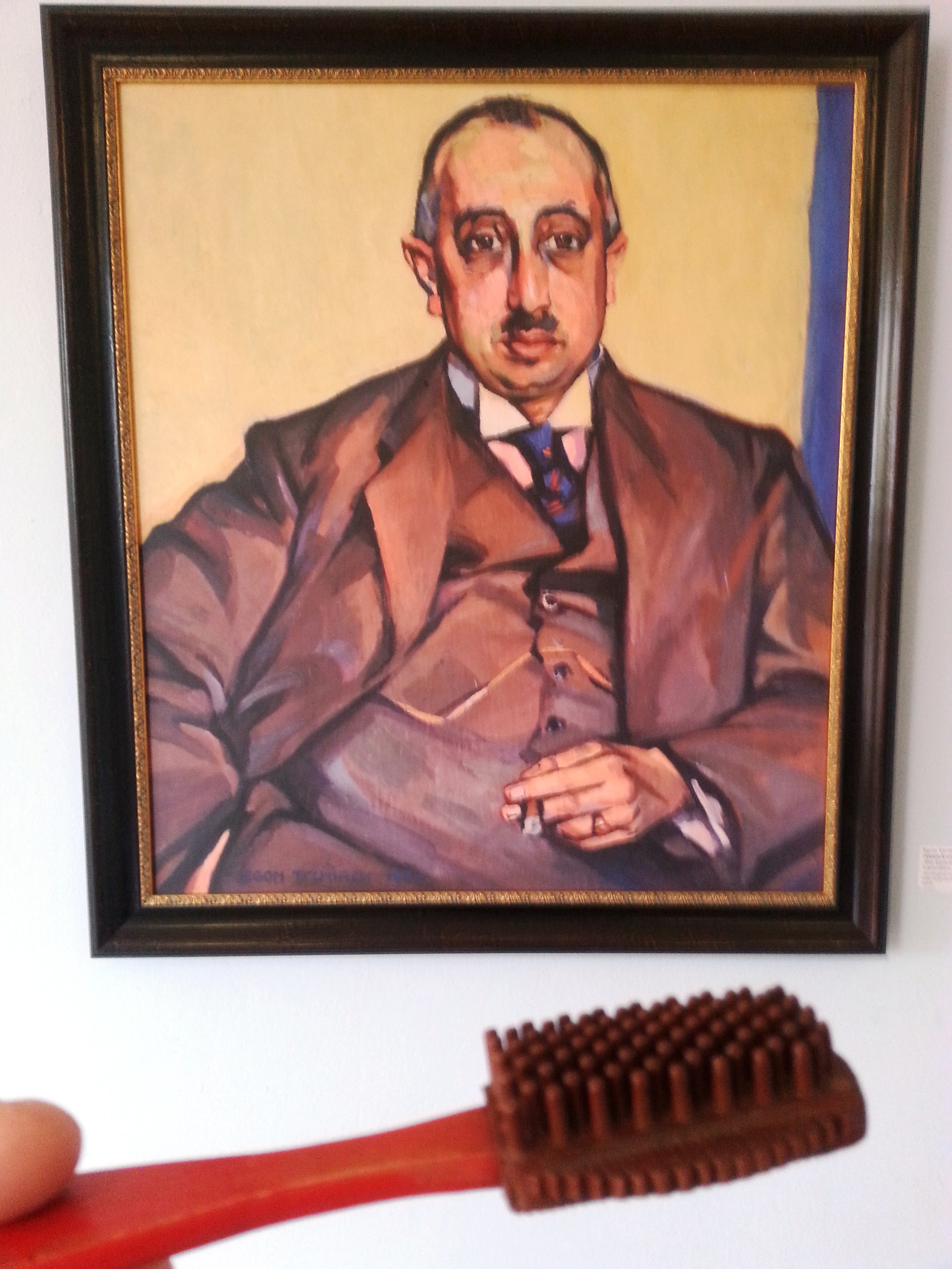 Max Samuel (1883-1942), 2016 reproduction of the original portrait of 1920 by Egon Tschirch with original EMSA suede rubber brush, Samuel's invention and cash cow of his company Emsa-Werke